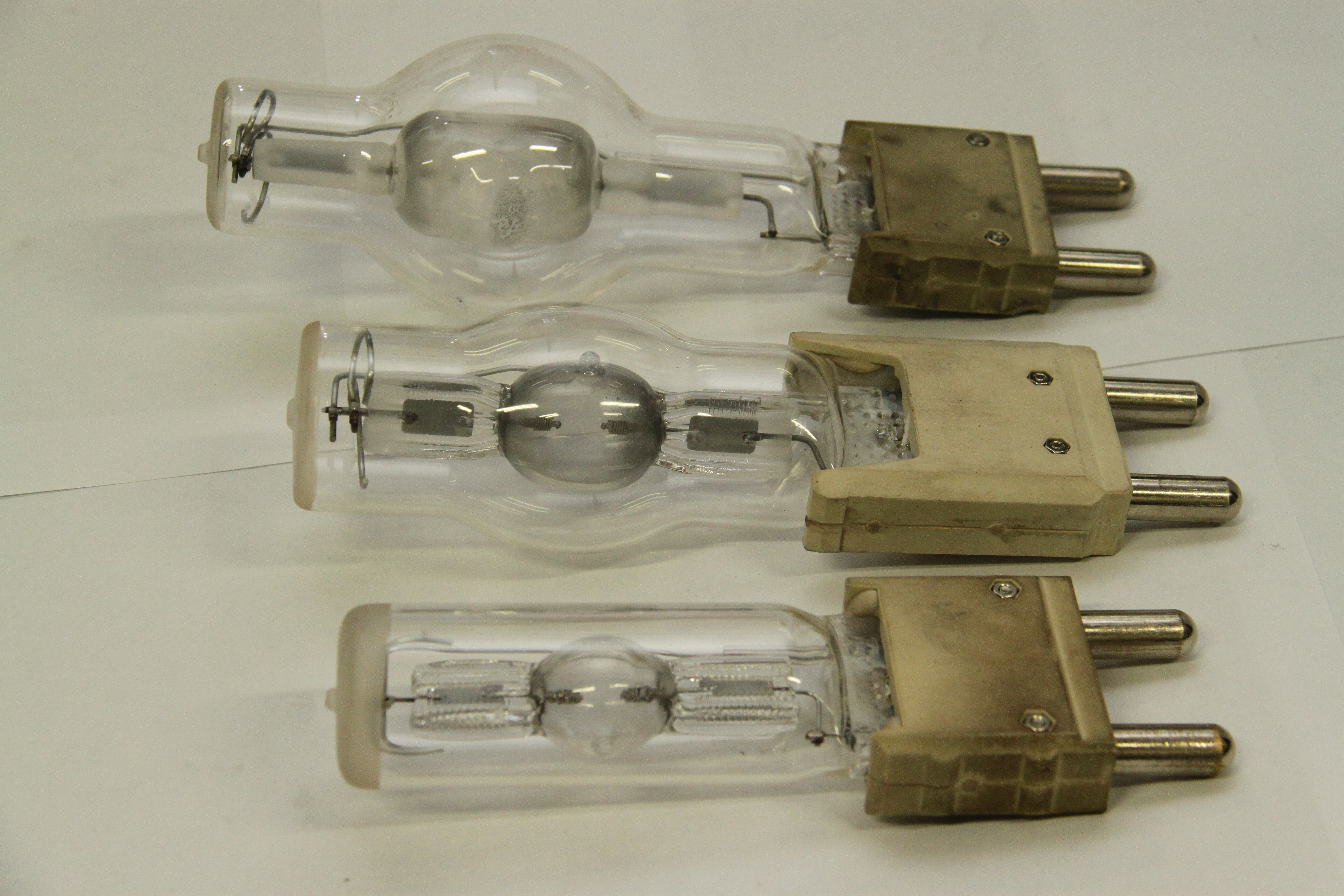 HMI lamps (Hydrargyrum medium-arc iodide lamps), downside to upside : 1.2 kW, 2.5 kW and 4 kW, single-ended.